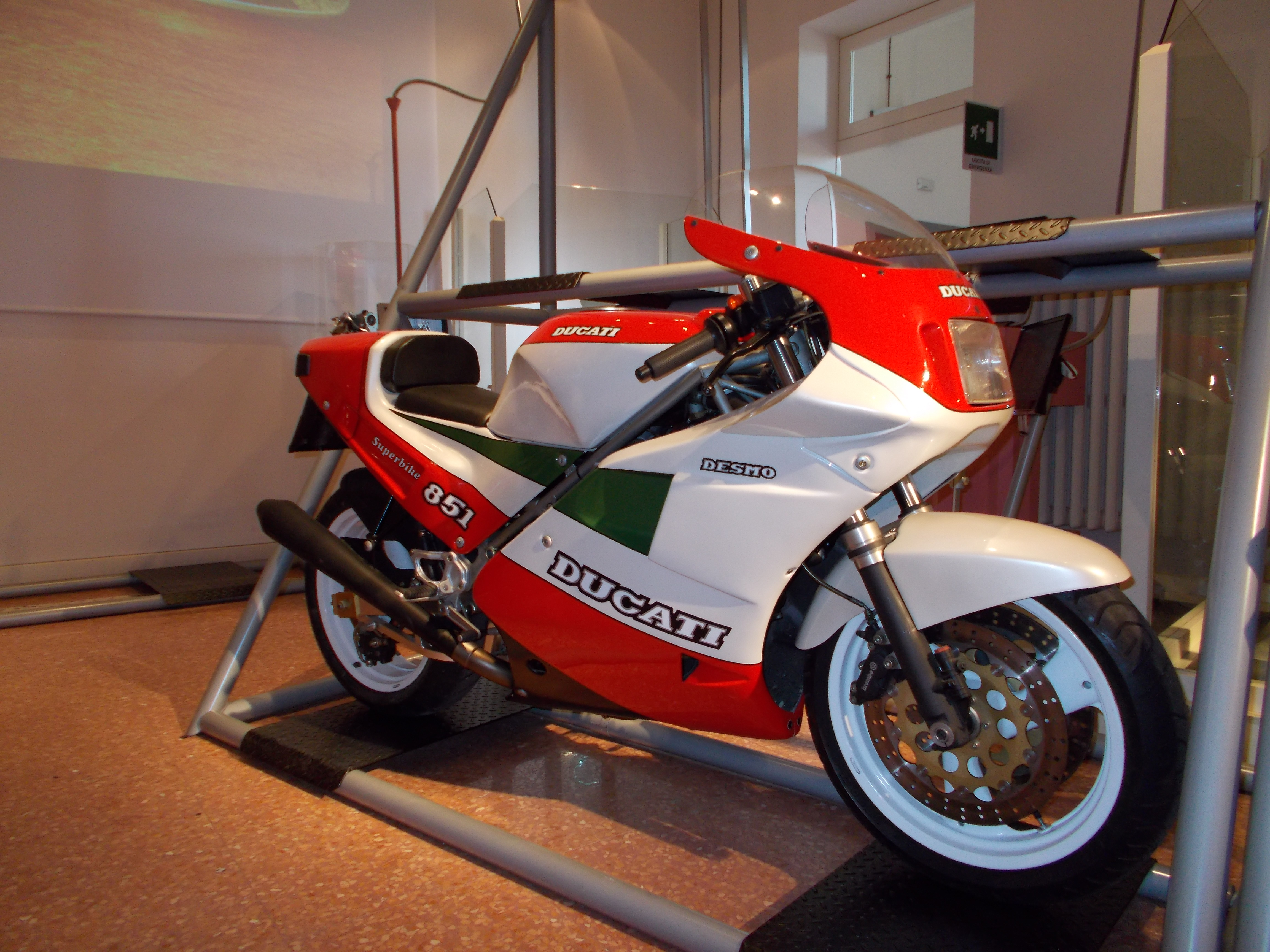 A 1988 Ducati 851 equipped with Superbike kit, also known as Ducati 851 Tricolore (for its livery inspired by Italian Flag), on display at "Desmo Story" exposition in Budrio (near Bologna), Italy